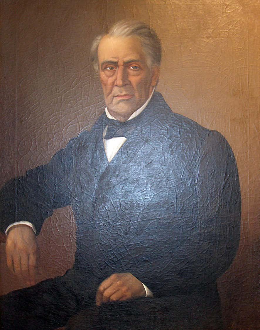 Portrait of Councillor Alexandre de Abreu Castanheira (1868), by António José Pereira. Santa Casa da Misericórdia de Viseu.